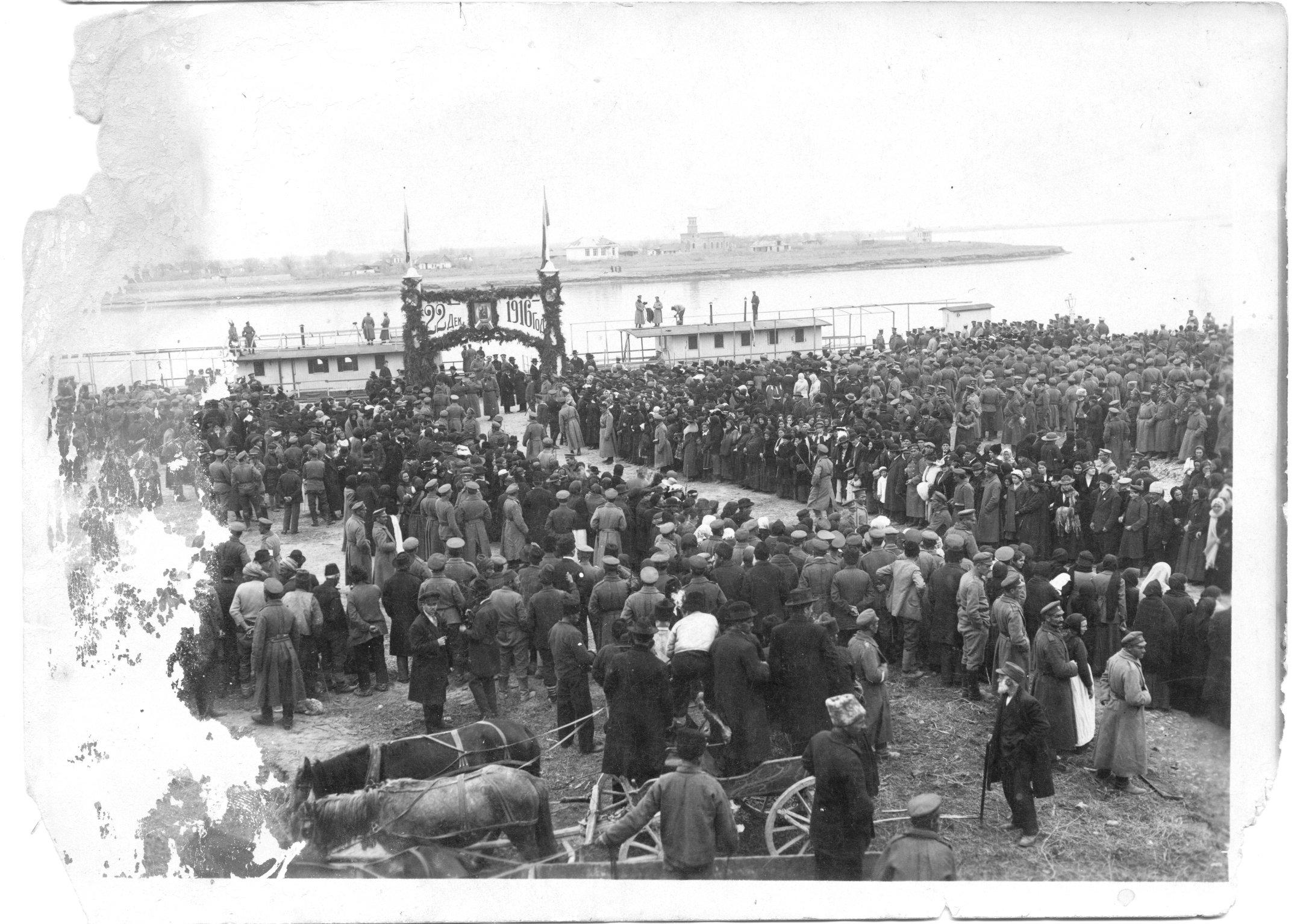 Arrival of Bulgarian Army in Tulcha, Romania on 22 December 1916